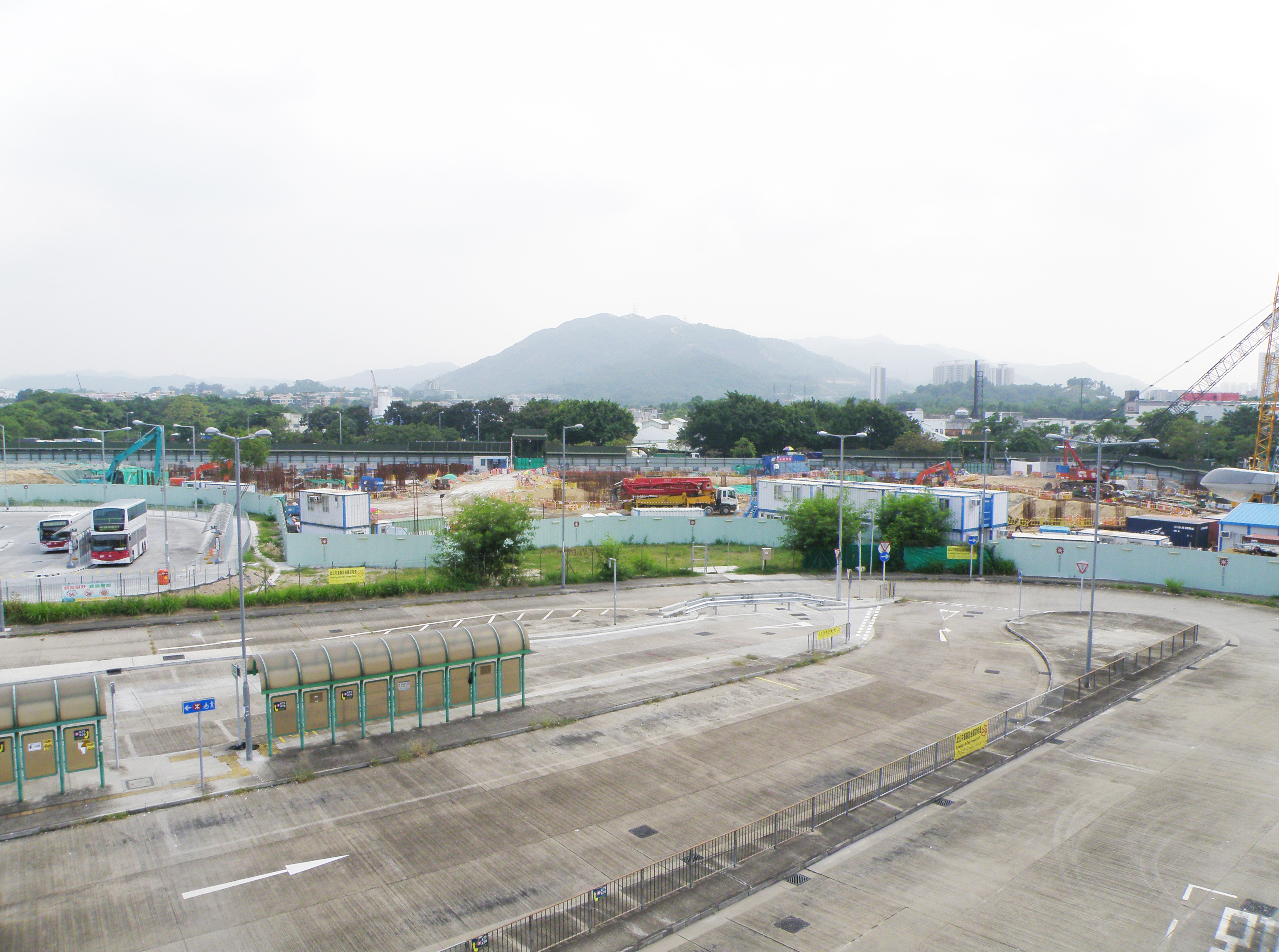 Ping Yan Court in Tin Shui Wai, Hong Kong.